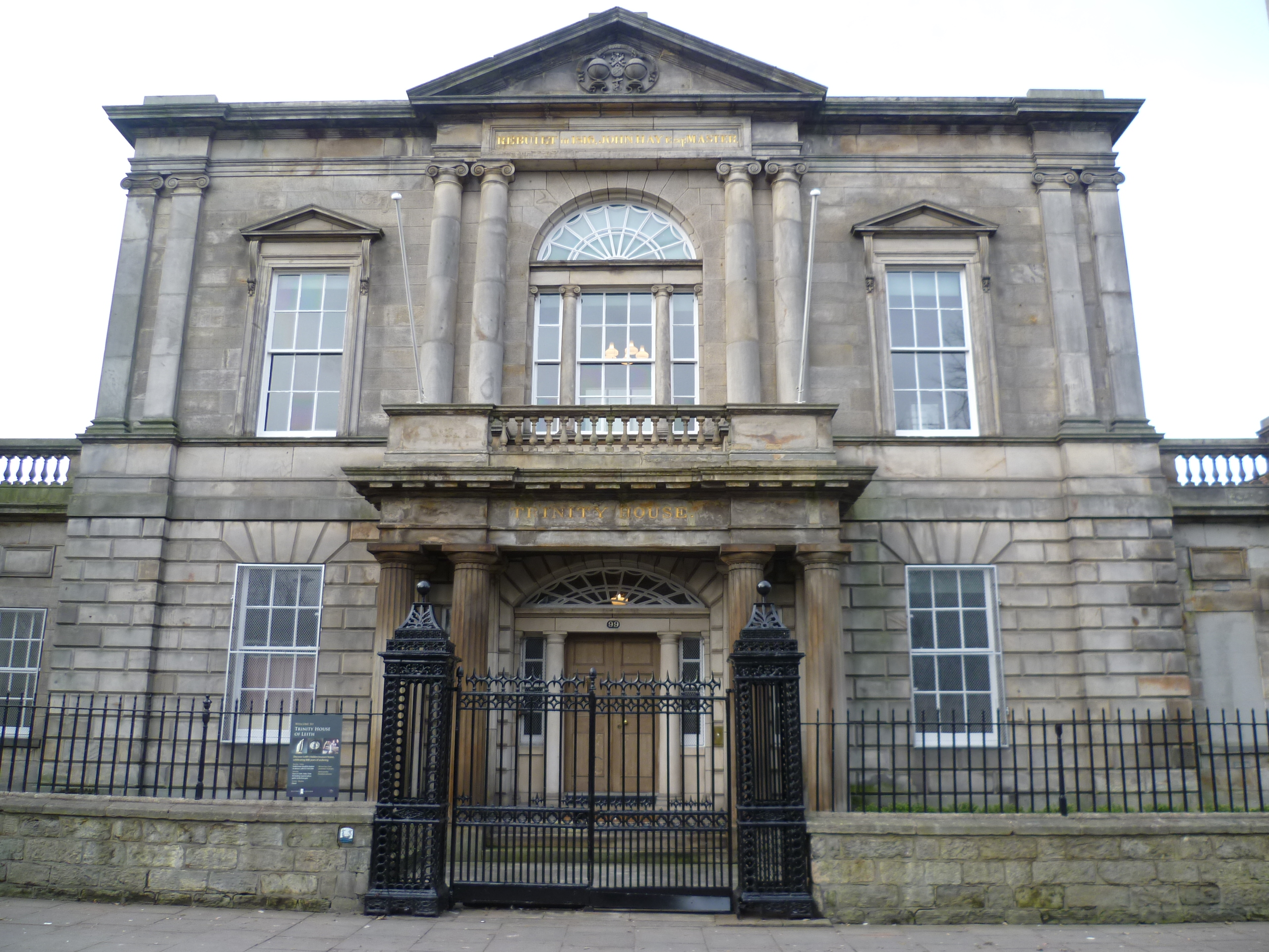 Erected in 1816 on the site of a mediaeval hospital for mariners, the buiilding housed the Incorporation of Shipowners and Shipmasters of Leith. It is now a maritime museum.